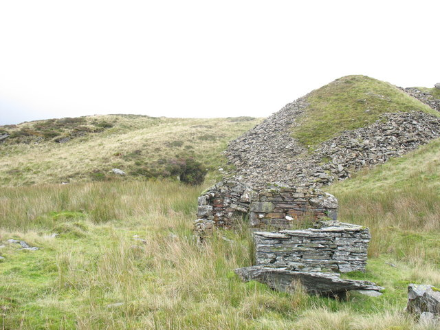 Ruined weighhouse building and entrance level into pit at Blaen-y-cwm Quarry 596063